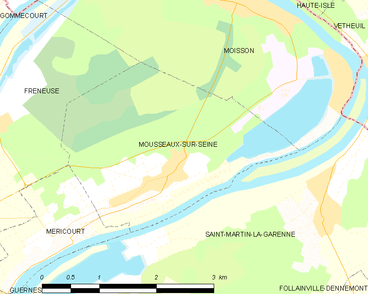 Map of French municipality Mousseaux-sur-Seine